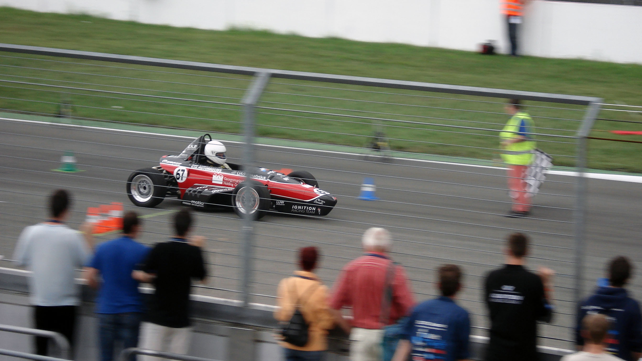 The IR08 (UaS Osnabrück) in Acceleration of FSG 2008